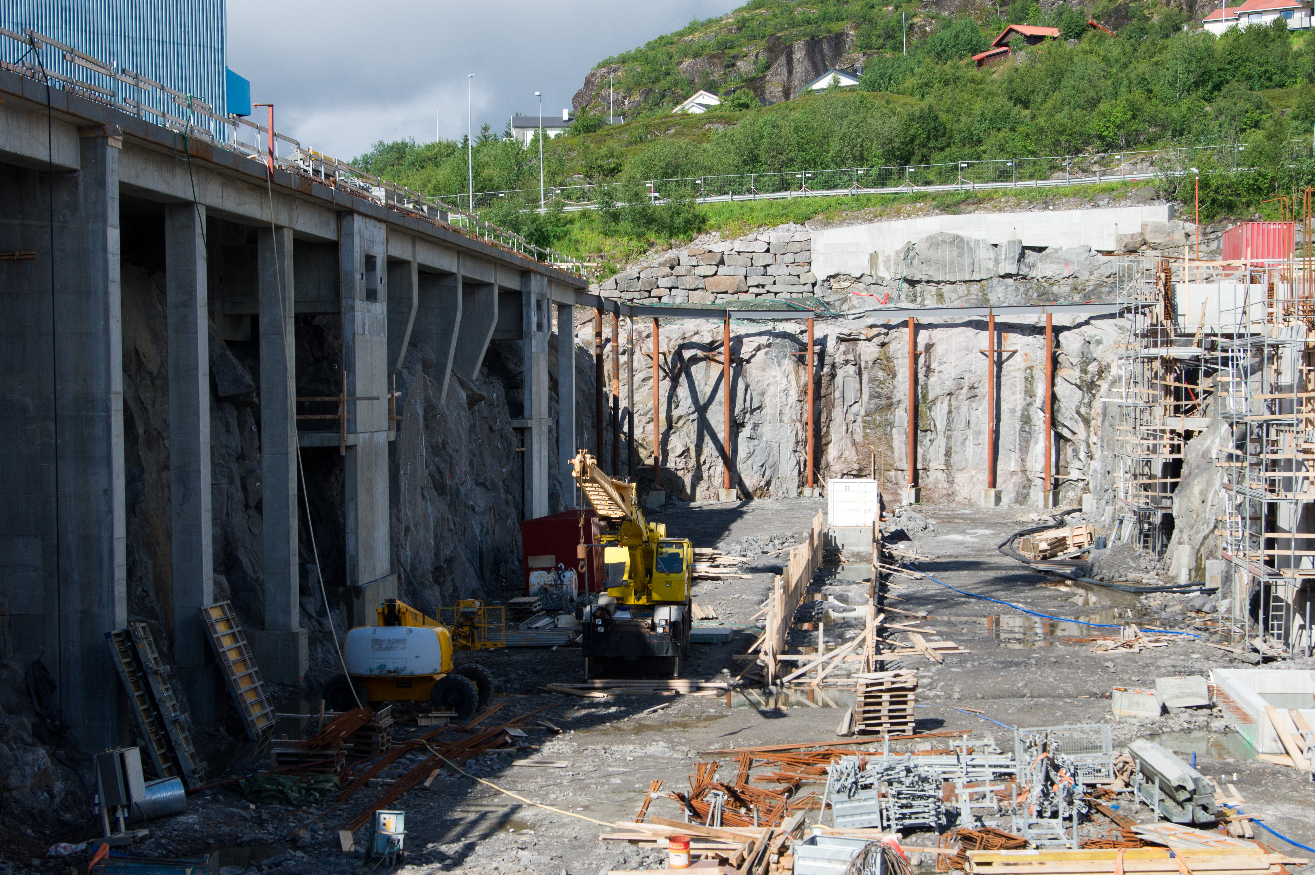 Dry dock under construction in Svolvaer, Norway